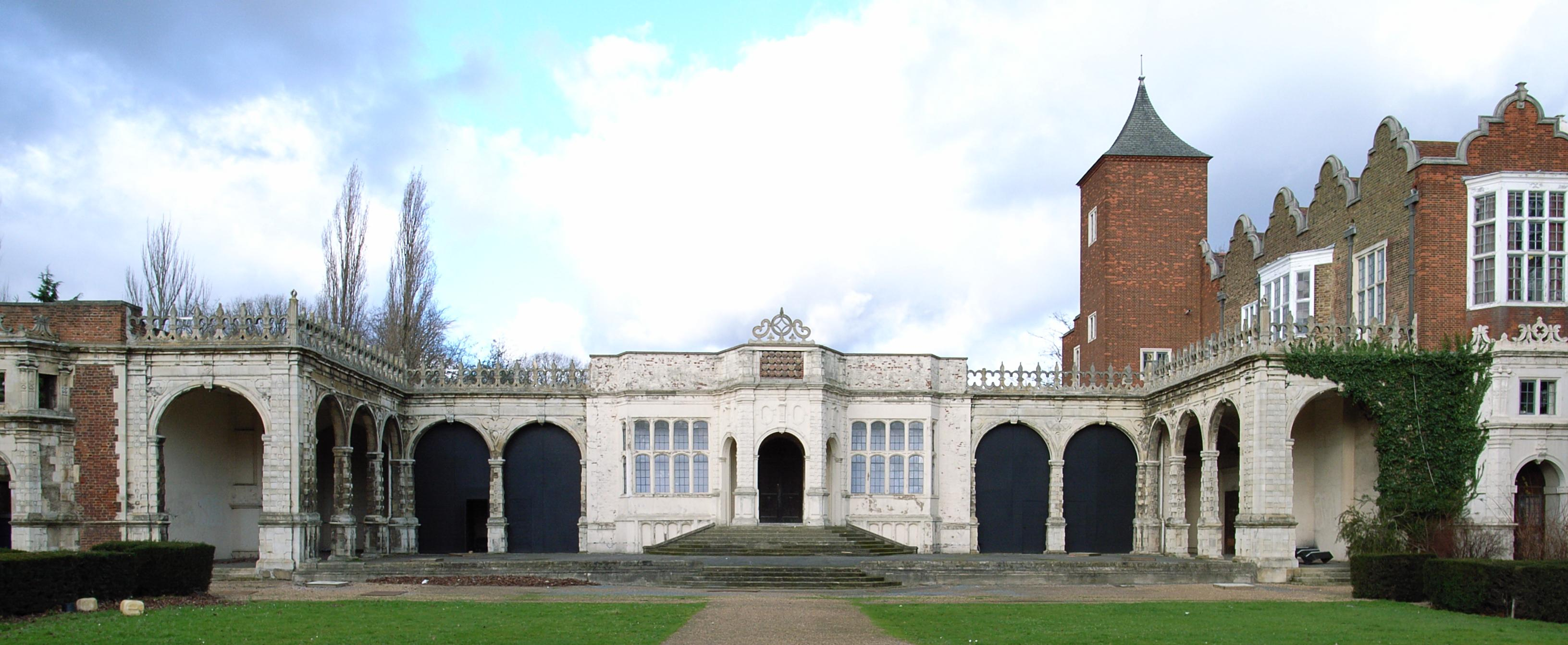 The ruins of Holland House.